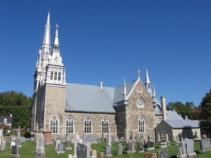 Saint-Charles Borromée Church in the village of Grondines, Deschambault-Grondines, Quebec, Canada.